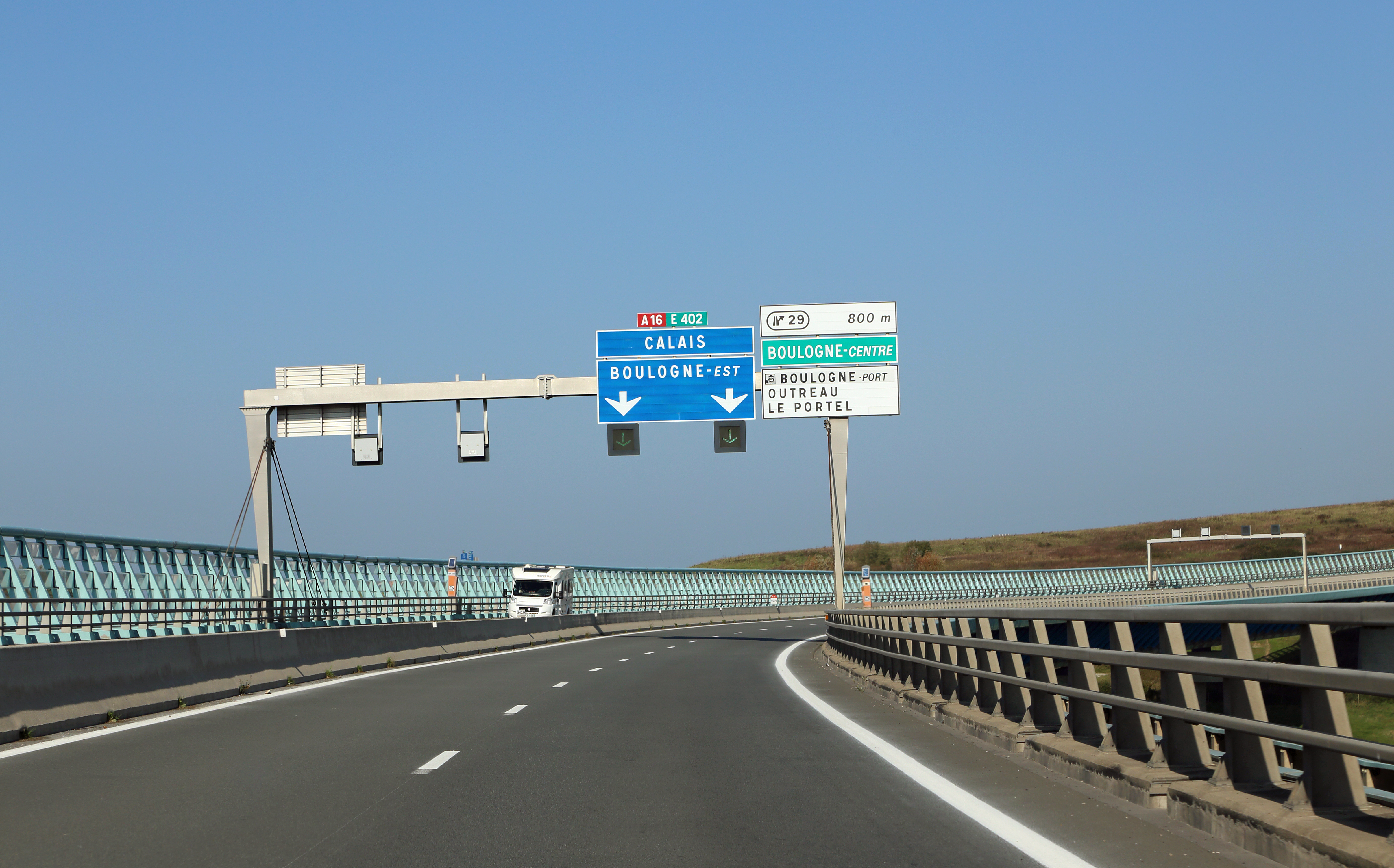 French A16 motorway on the Echinghen viaduct near Boulogne-sur-Mer (France)